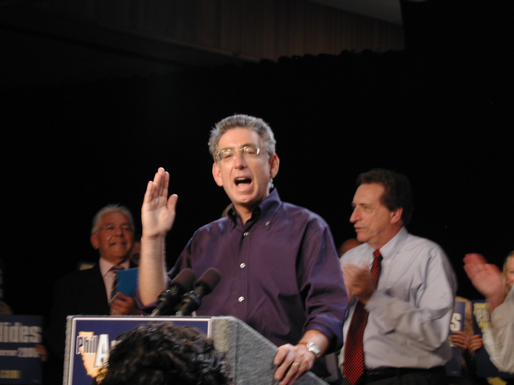 Photo of Phil Angelides